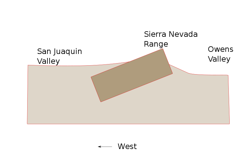 Sierra nevada schematic